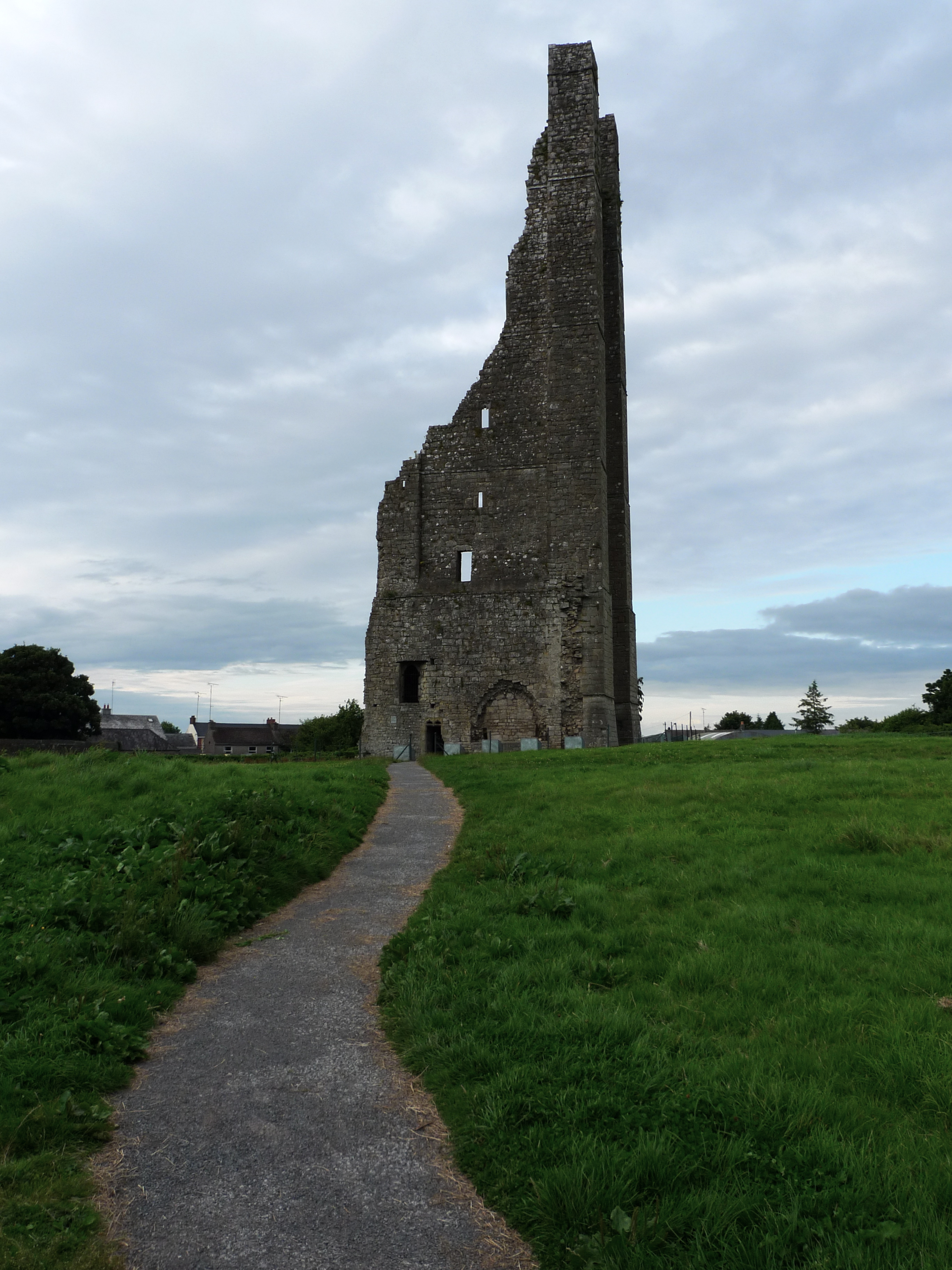 This is all that remains of an enormous Augustinian abbey (St. Mary's) that once stood in Trim.